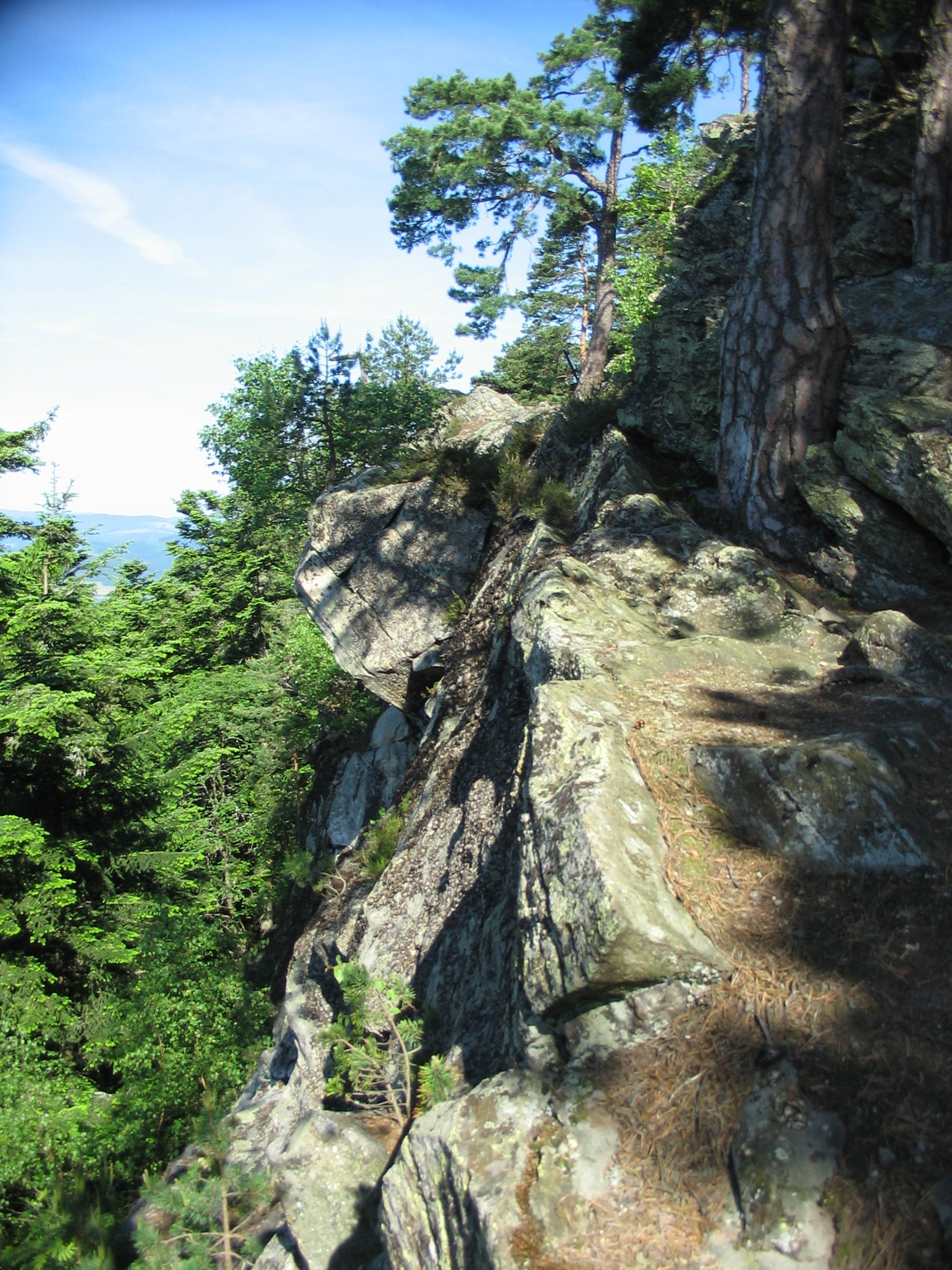 Steep rocky slope on the southern side of Sedlo, just below the summit (902 m), Klatovy District, Czech Republic